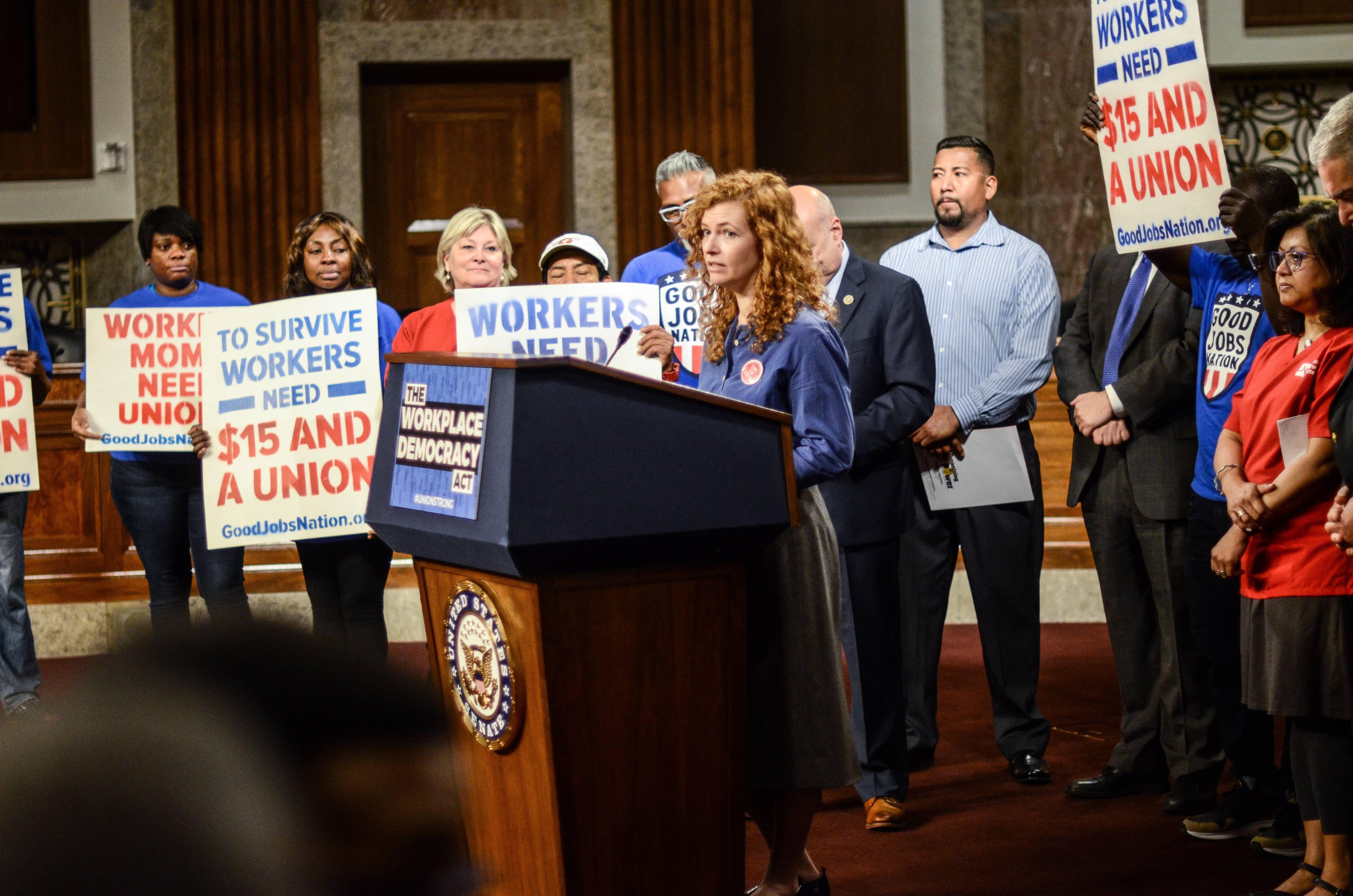 Wednesday, May 9, 2018 Senator Sanders introduced legislation to level the playing field to allow unions to organize and push back against threatening actions employers take to prevent union organizing.